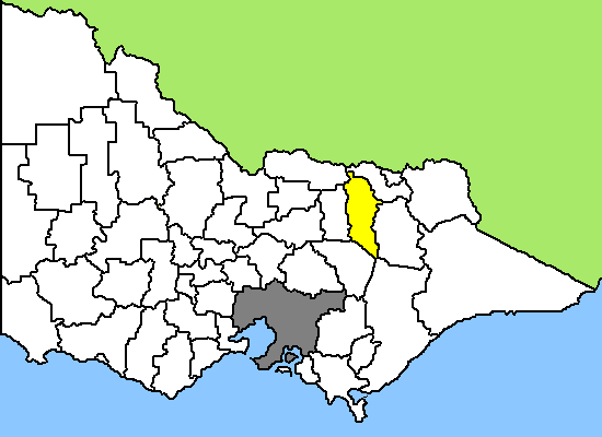 Map of Victoria/Australia, LGA of the Rural City of Warrangatta highlighted